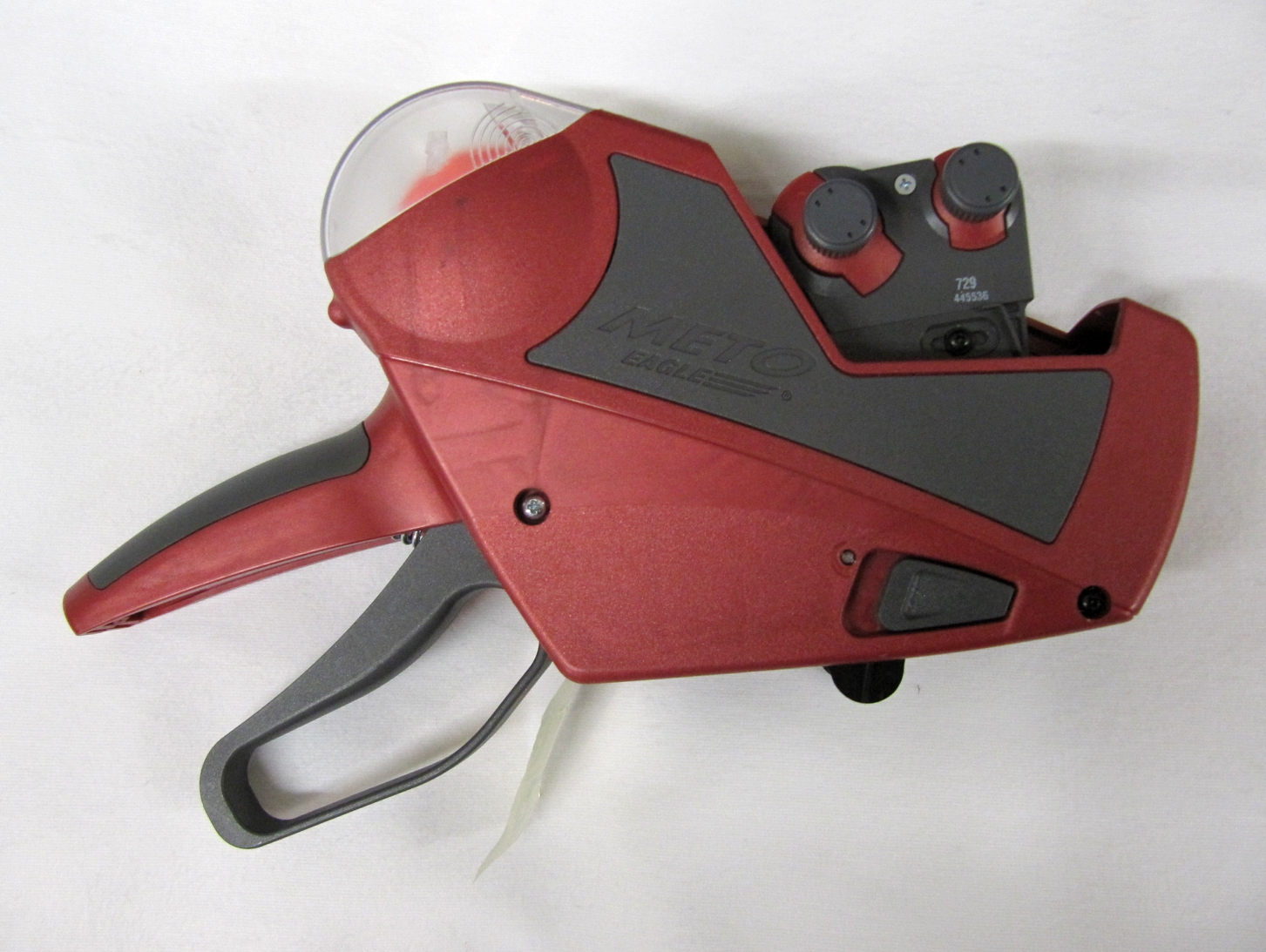 Price tagger (brand "METO Eagle") for self-adhesive labels